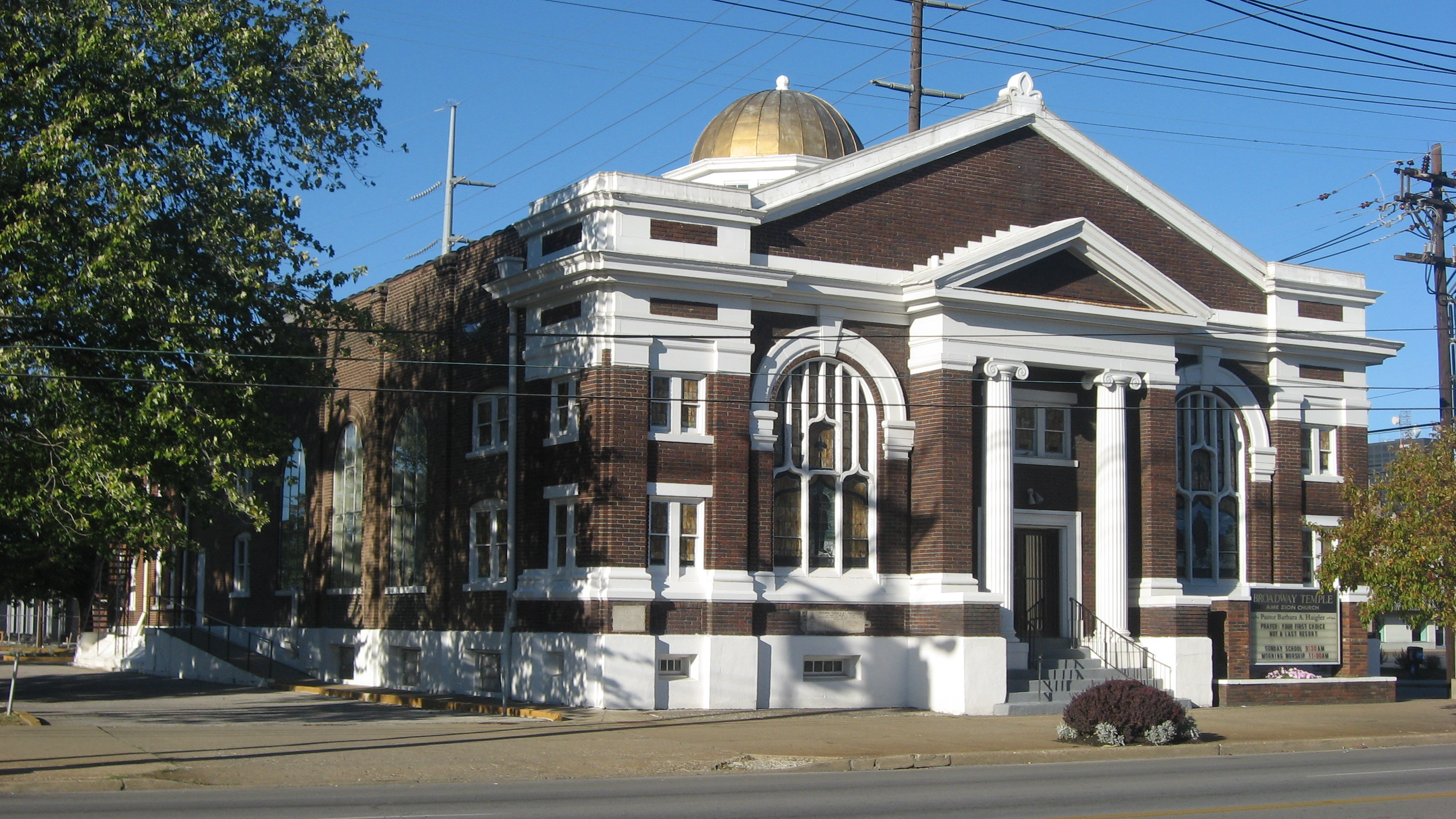 Front and western side of the Broadway Temple A.M.E. Zion Church, located at 662 S. Thirteenth Street in the West End of Louisville, Kentucky, United States. Built in 1915, it is listed on the National Register of Historic Places.